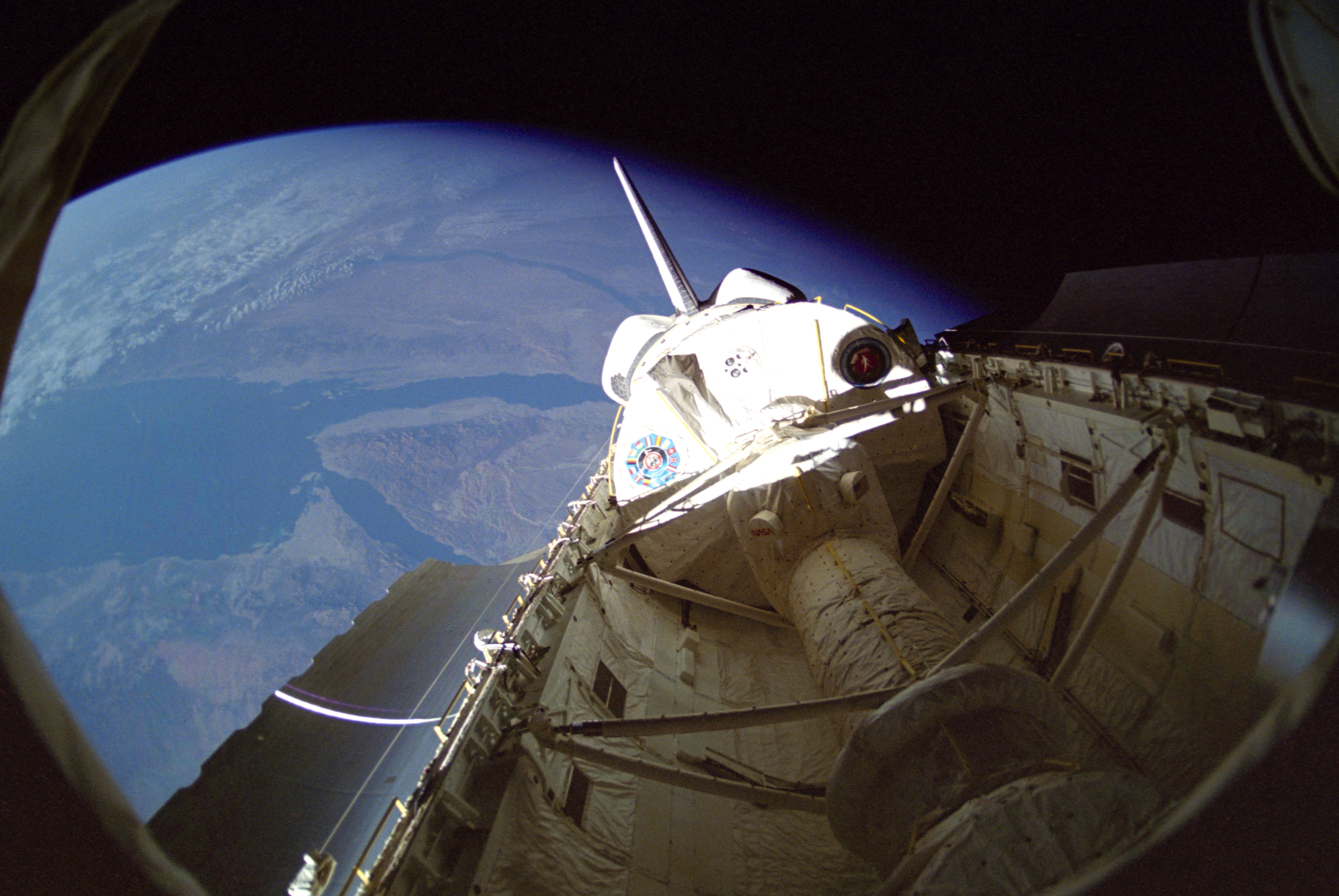 View of Discovery's payload bay showing Spacelab on STS-42. STS-42 International Microgravity Laboratory 1 (IML-1) spacelab (SL) module and SL tunnel (foreground) exteriors are documented in the payload bay (PLB) of Discovery, Orbiter Vehicle (OV) 103, and backdropped against the Red Sea and part of the Sinai Peninsula.